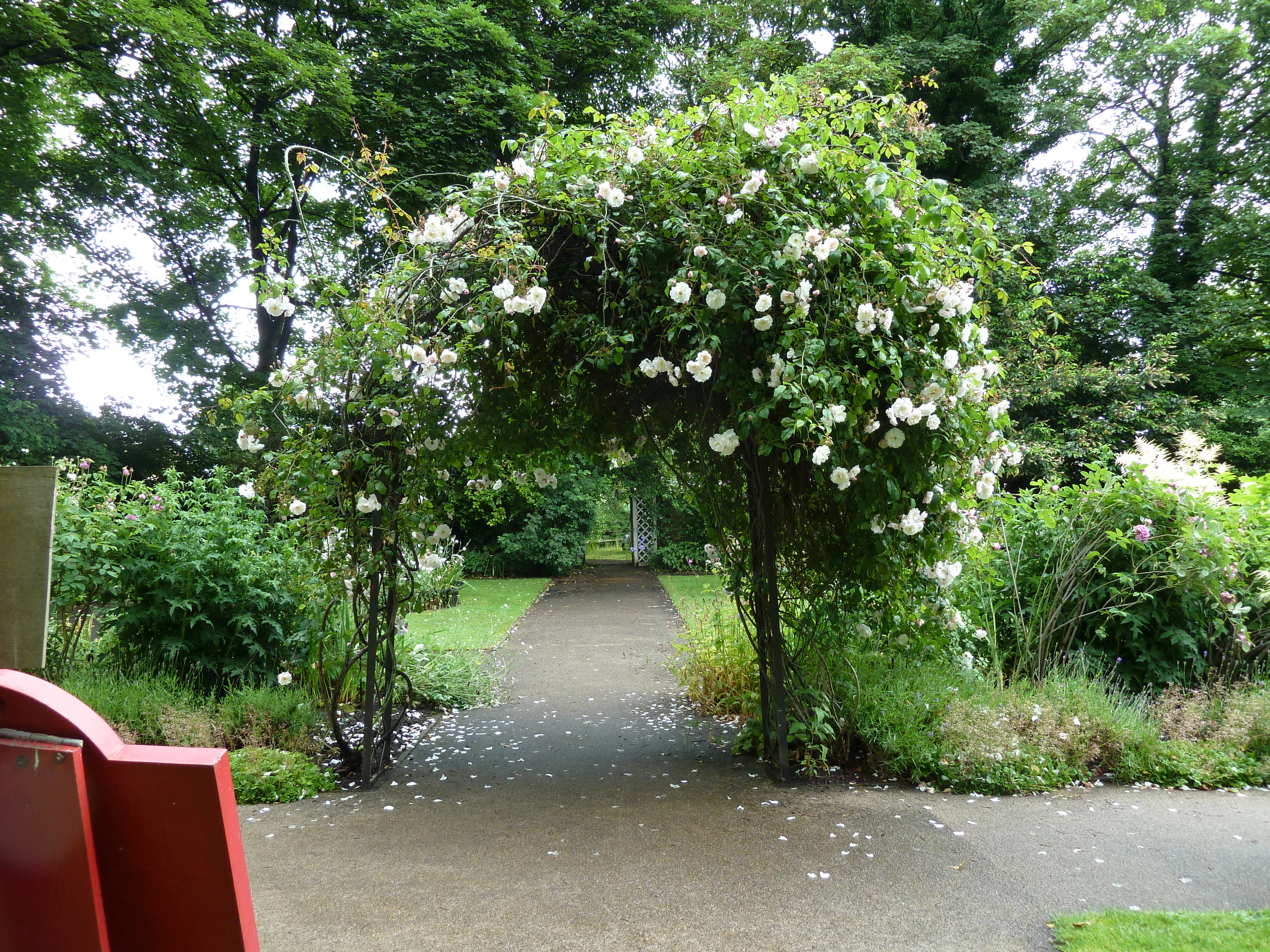 Grounds of Red House Museum in Gomersal, West Yorkshire, England. Showing Adélaide d'Orléans rose, bred by Jacques, 1826.